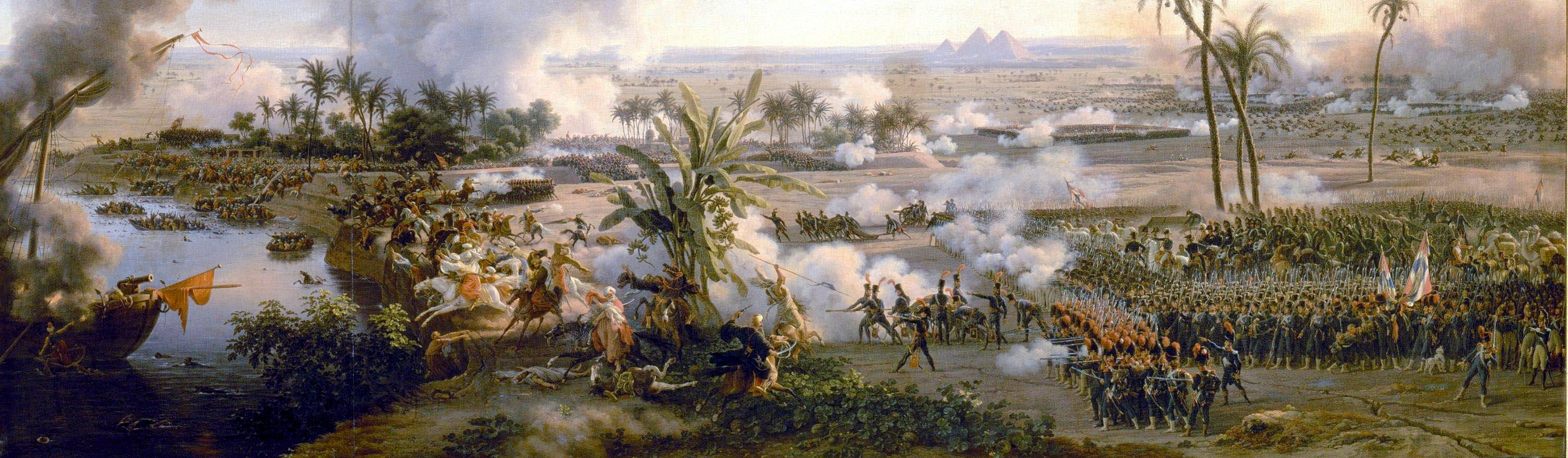 Battle of the Pyramids. 1798.